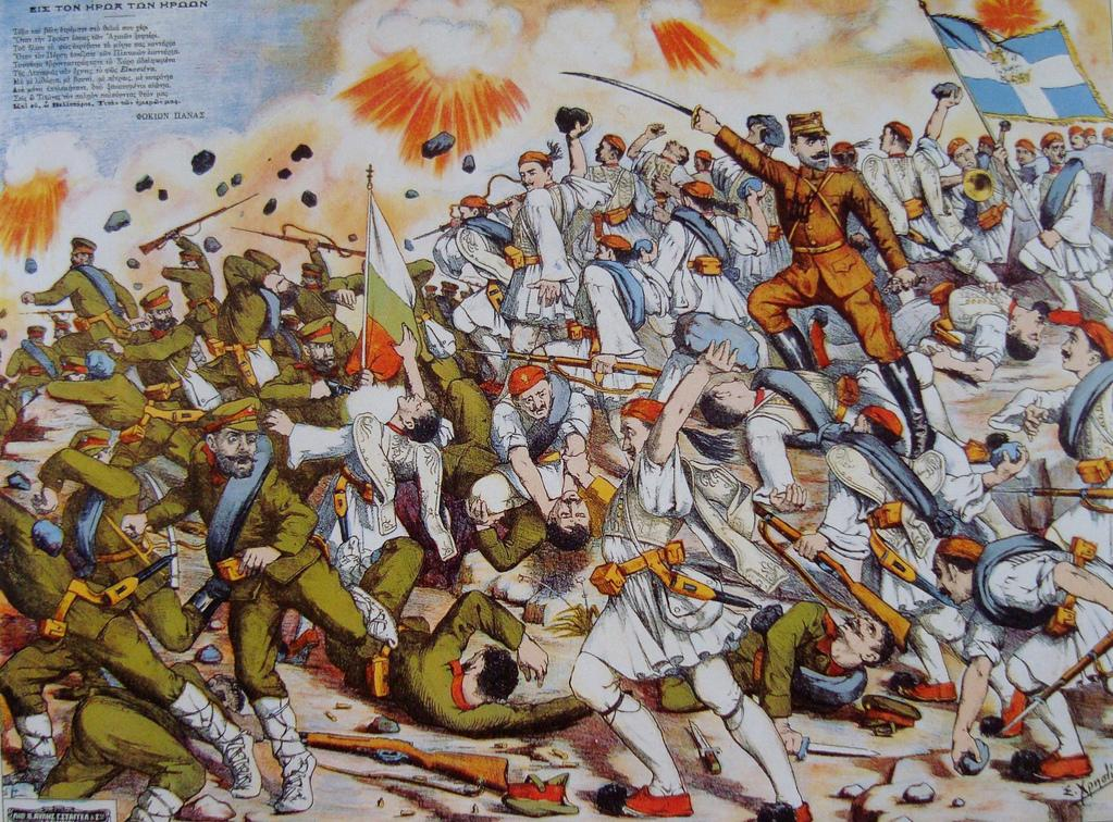 Painting depicting the last battle of Major Ioannis Velissariou, during the Greek-Bulgarian Second Balkan War (1913) with the title "The Titanomachy of Kresna"